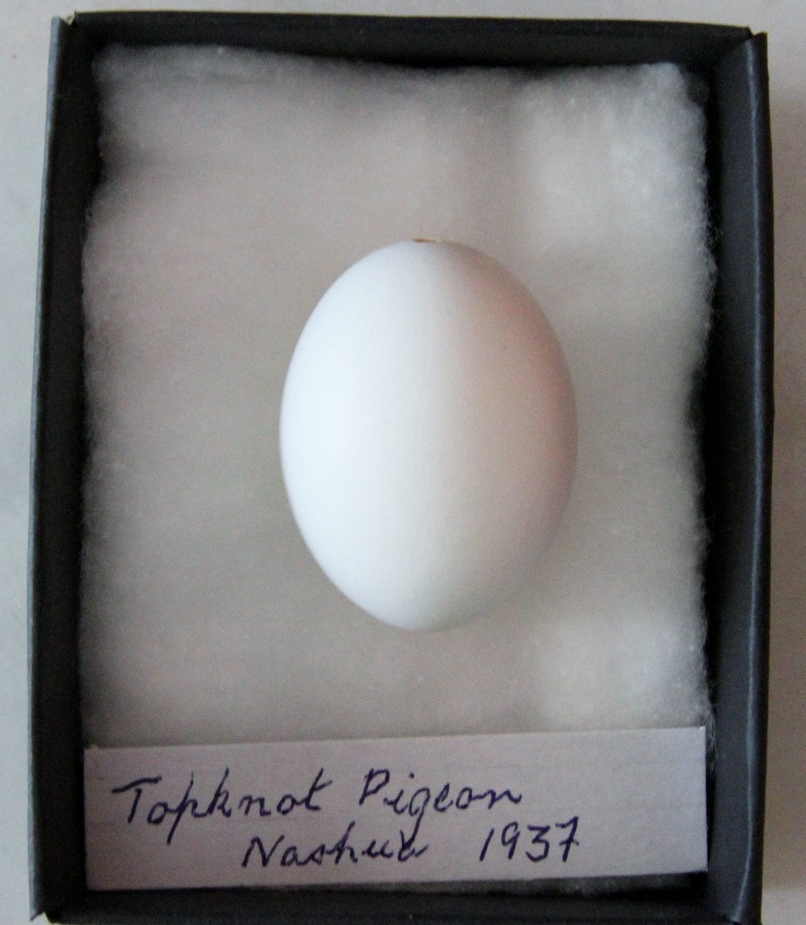 Topknot Pigeon Egg Nashua 1937